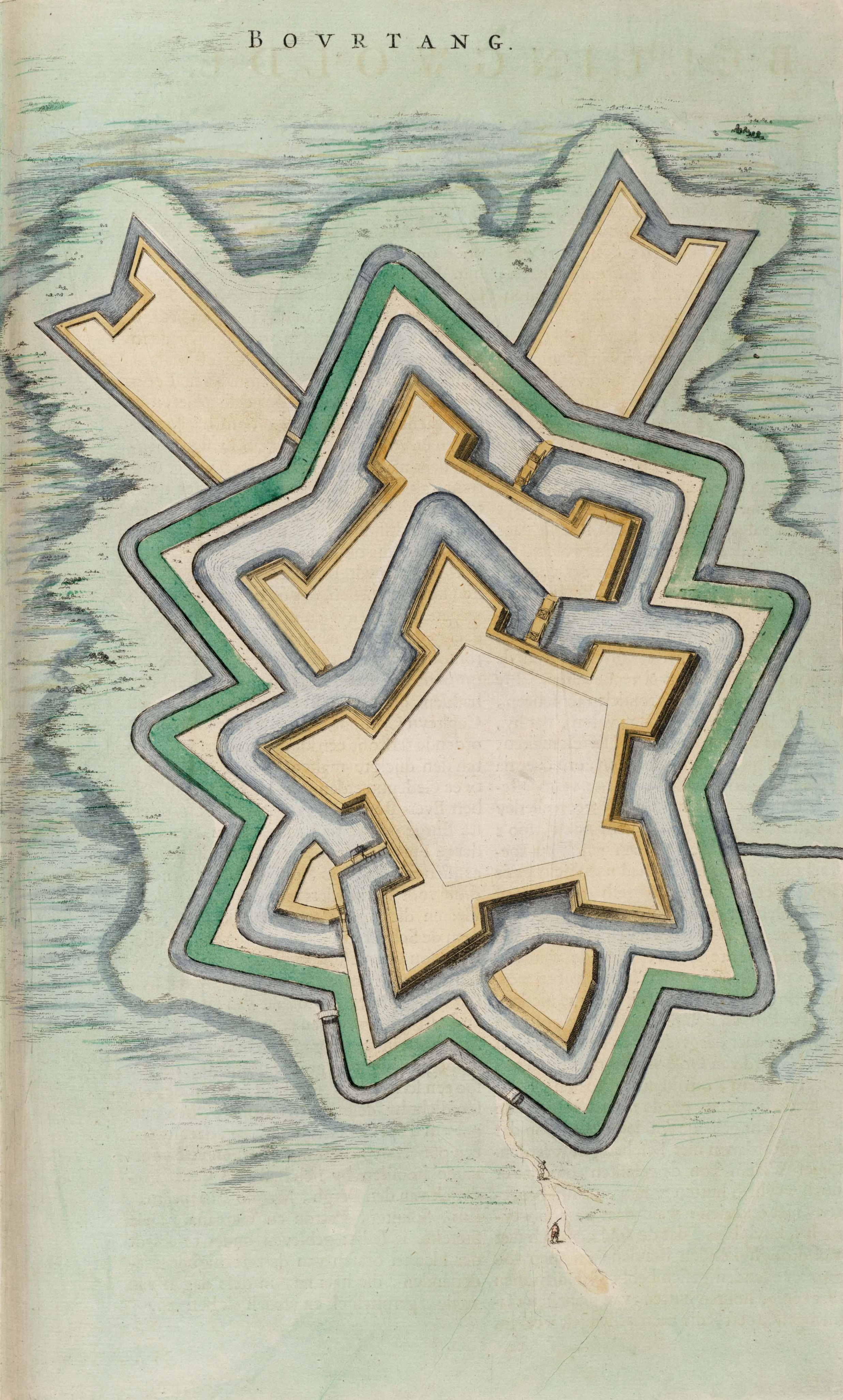 The fortified town of Bourtange, Groningen, the Netherlands, as depicted in the Atlas van Loon.